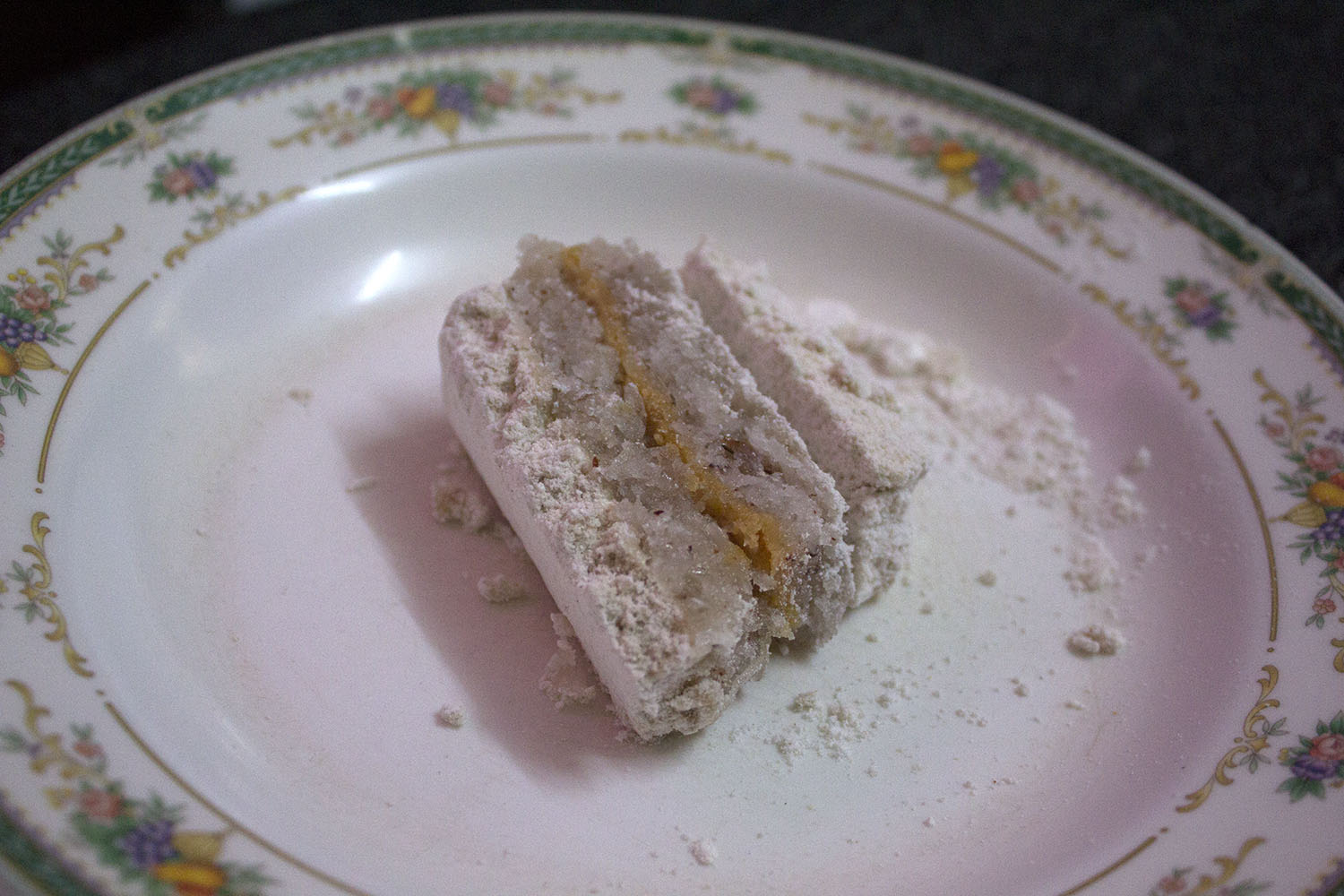 Myanmar traditional snack - Karekara (Ka Yay Ka Yar)မြန်မာဘာသာ: မြန်မာ့ရိုးရာ စားစရာ ကရေကရာ